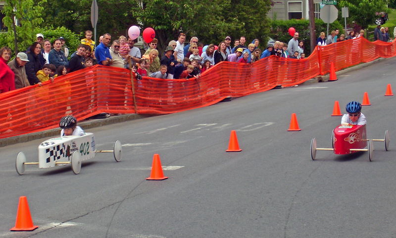 The Walden, New York soapbox derby.